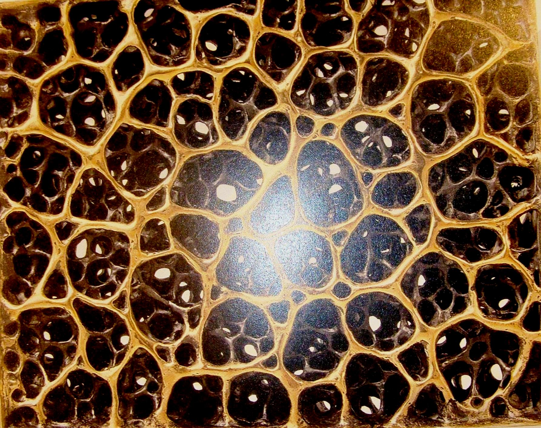 Fragment of artistic bronze casting cell. The foundry manufacturing technique called injection of casting on gasified patterns (Lost Foam Casting). This technology is used foam patterns, including the production of such patterns using cellular casts volumetric modular structures with repeated elements, foam models which can be manufactured on semi-automatic or a 3D Fraser.